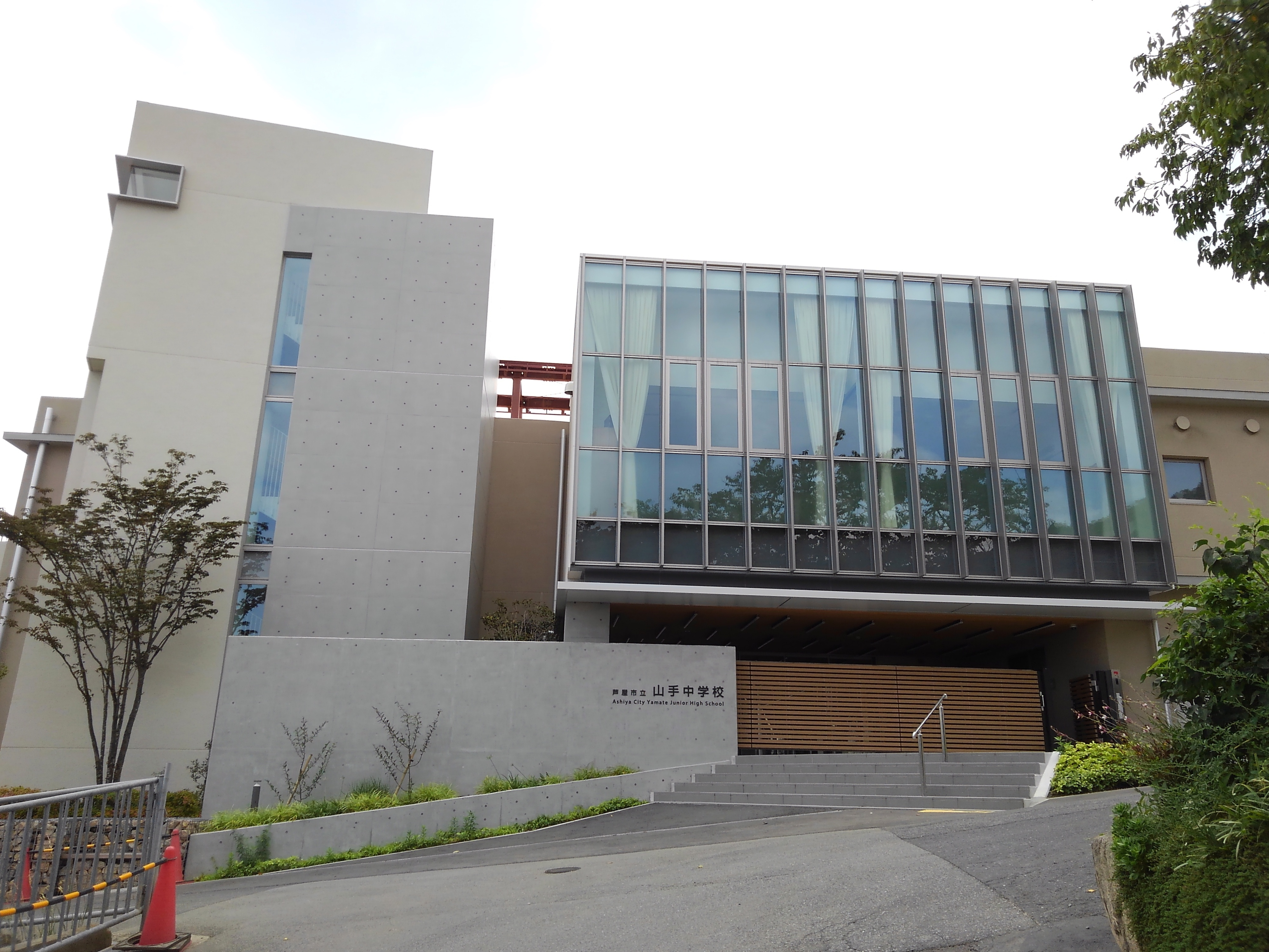 New main building of Ashiya City Yamate Junior High School located in Ashiya, Hyogo, Japan.